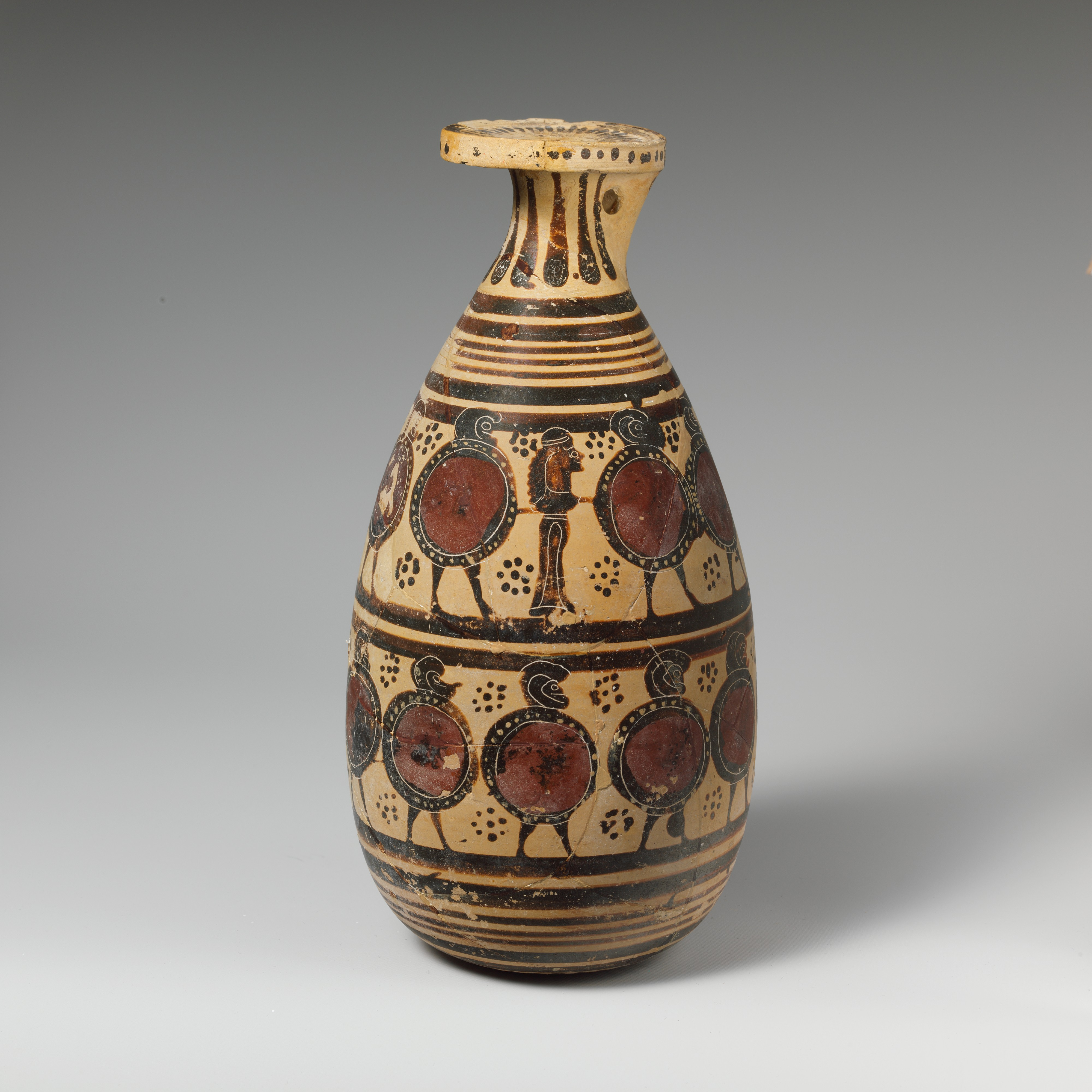 Greek, Corinthian; Alabastron; Vases; Two friezes of hoplites to right.